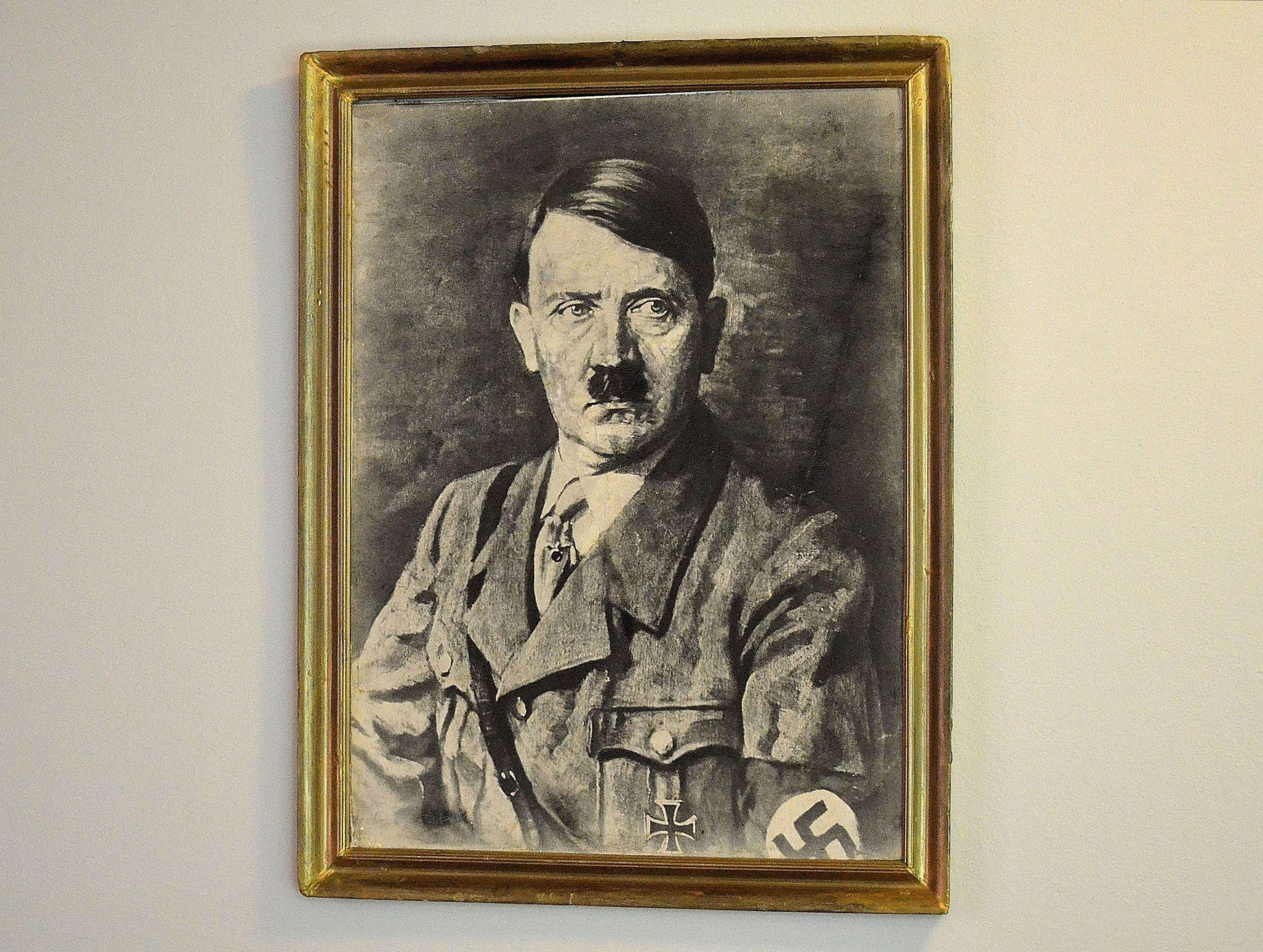 Portrait of Adolf Hitler in the Mausoleum of Struggle and Martyrdom in Warsaw